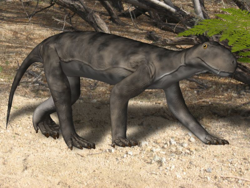 Lycaenops ornatus, late Permian of South Africa. Digital.